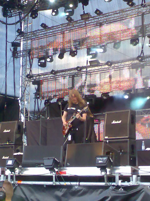 Mikael Åkerfeldt with Opeth at Ruisrock 2008 in Turku, Finland